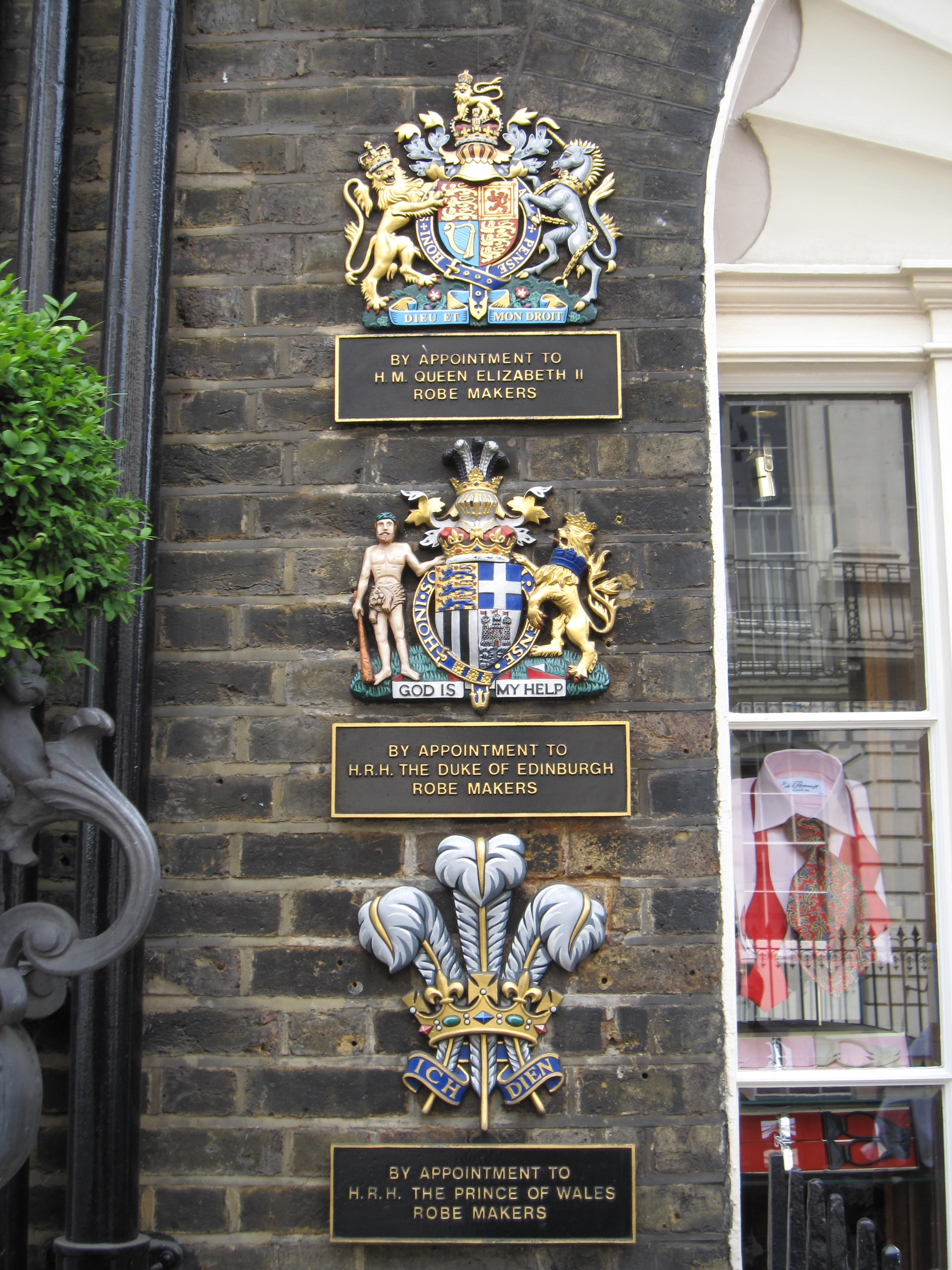 Ede & Ravenscroft shop on Burlington Gardens in London.